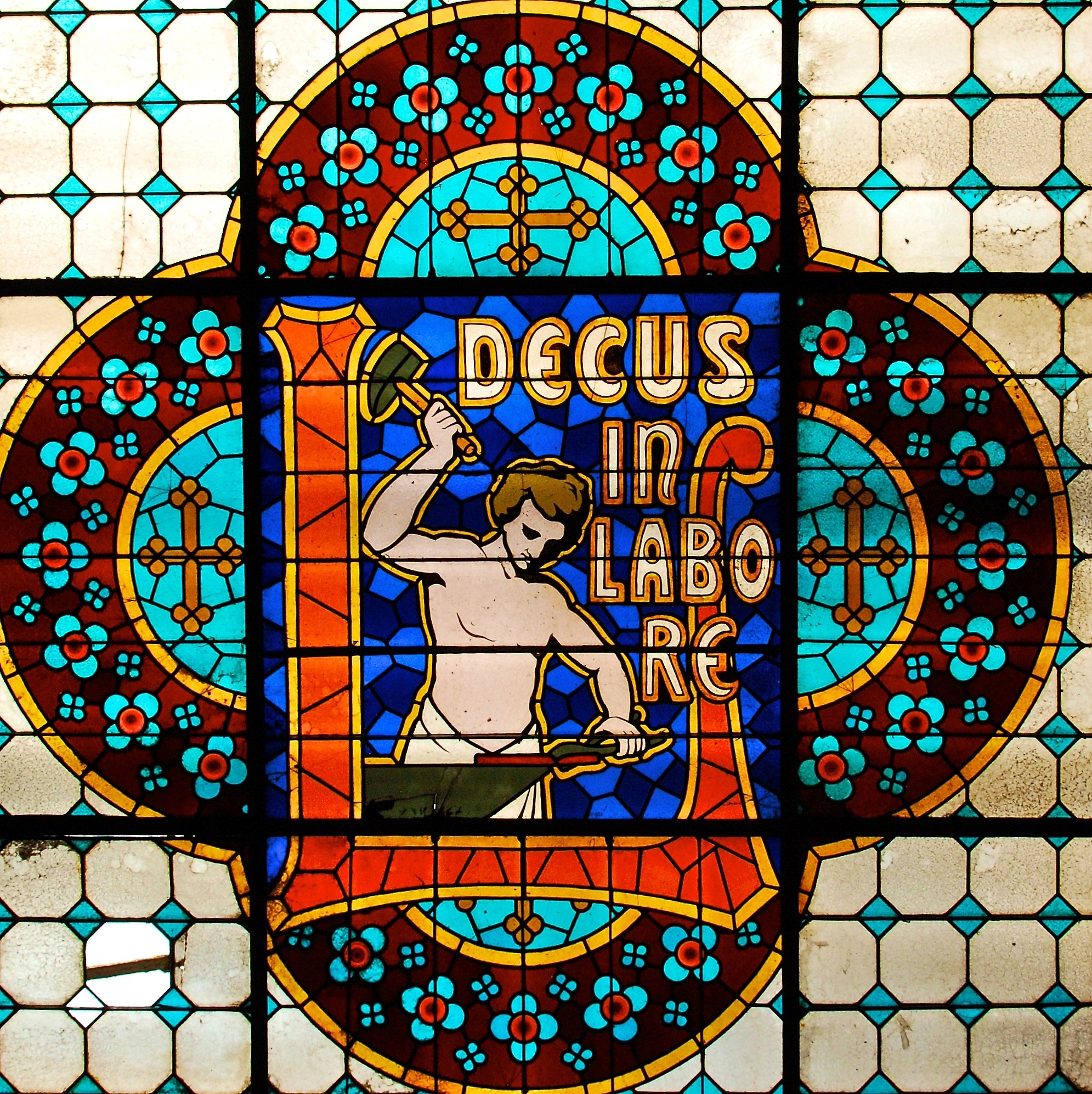 Lello e Irmão Bookshop : Stained glass window